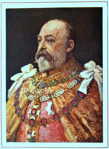 King Edward VII of Britain - From the painting by W. H. Margetson. - from Cassell's History of England, Vol. I - anonymous author and artists